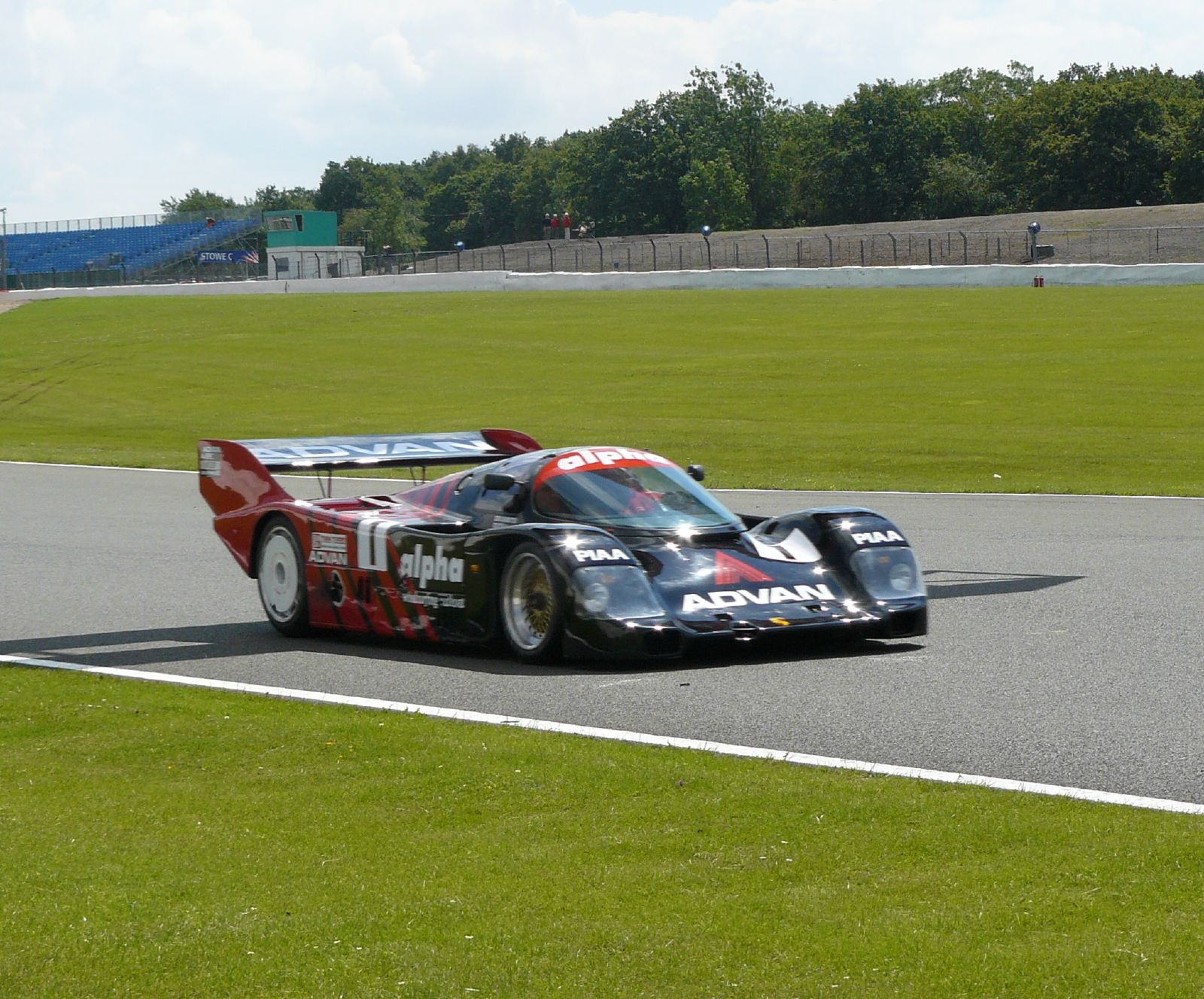 A Porsche 962 at the Silverstone Classic